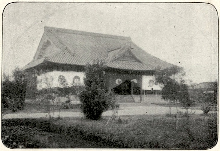 本派本願寺台湾別院